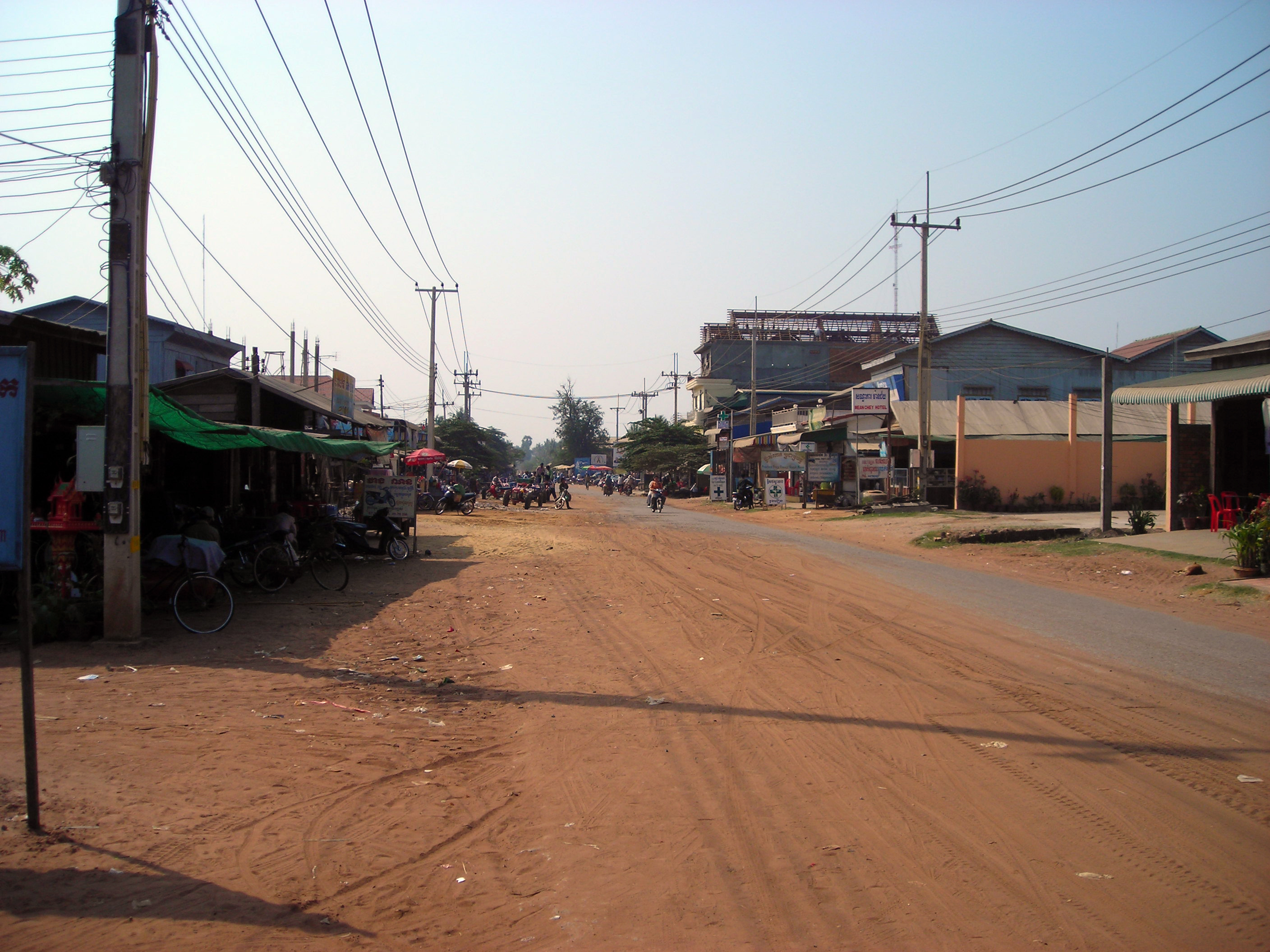 Street in Samraong in Oddar Meancheay, Cambodia.